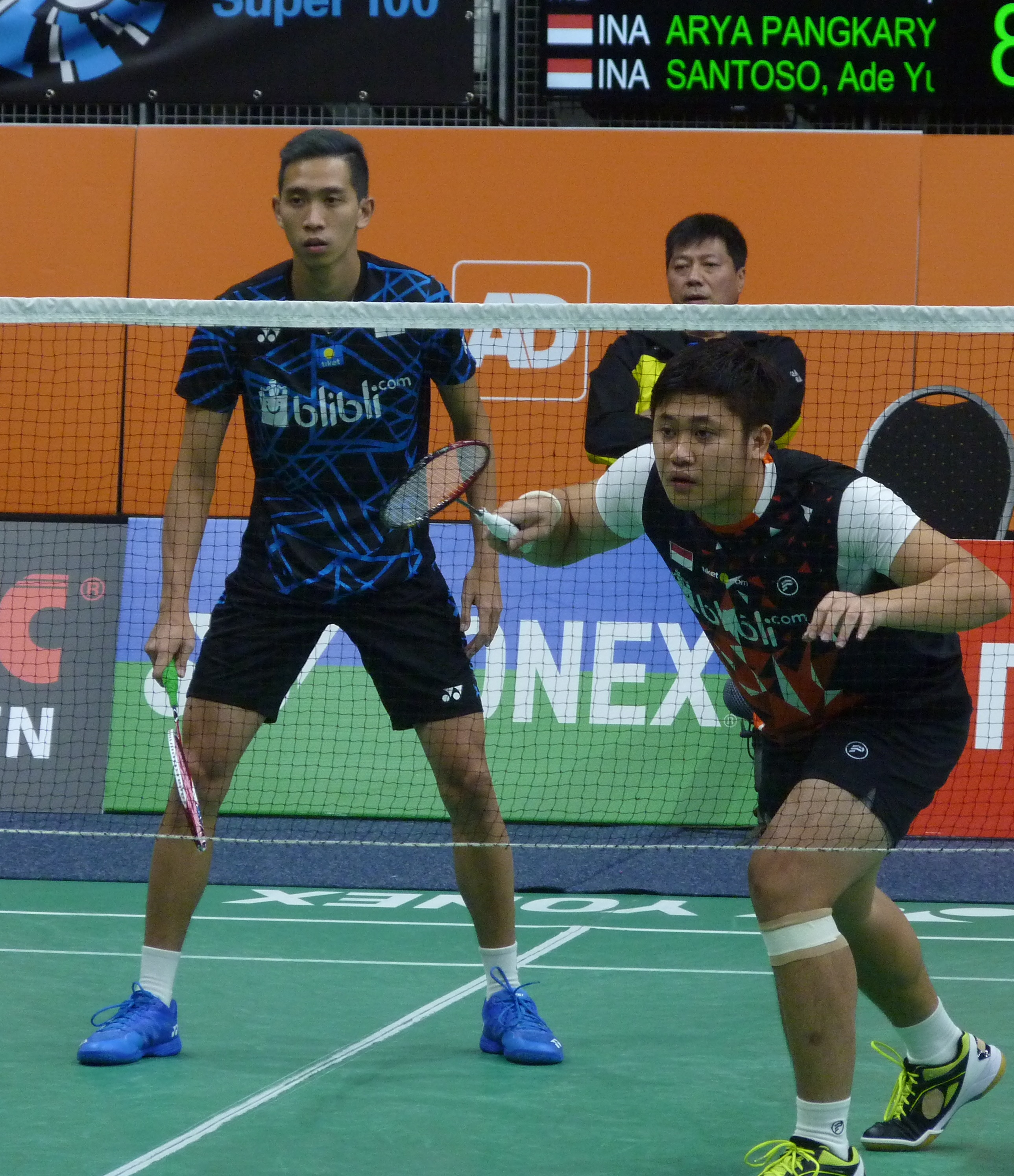 Ade Yusuf Santoso & Wahyu Nayaka Arya Pankaryanira (INDONESIA)